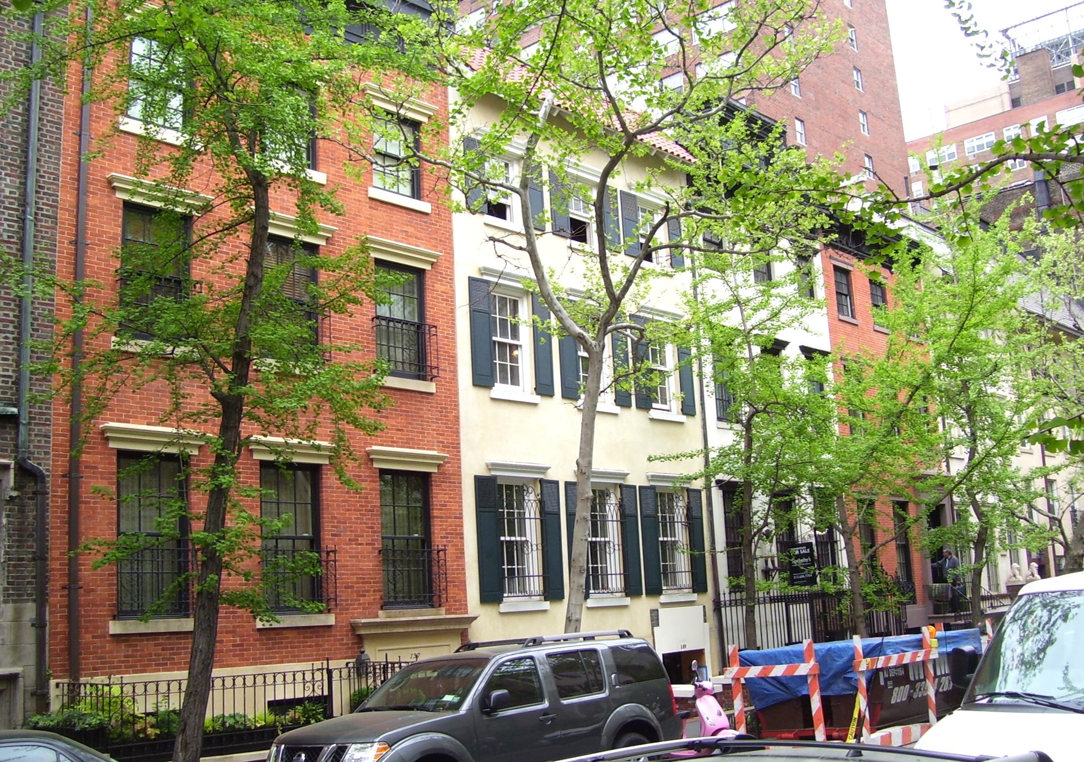 A row of townhouses on East 19th Street. #137-145.